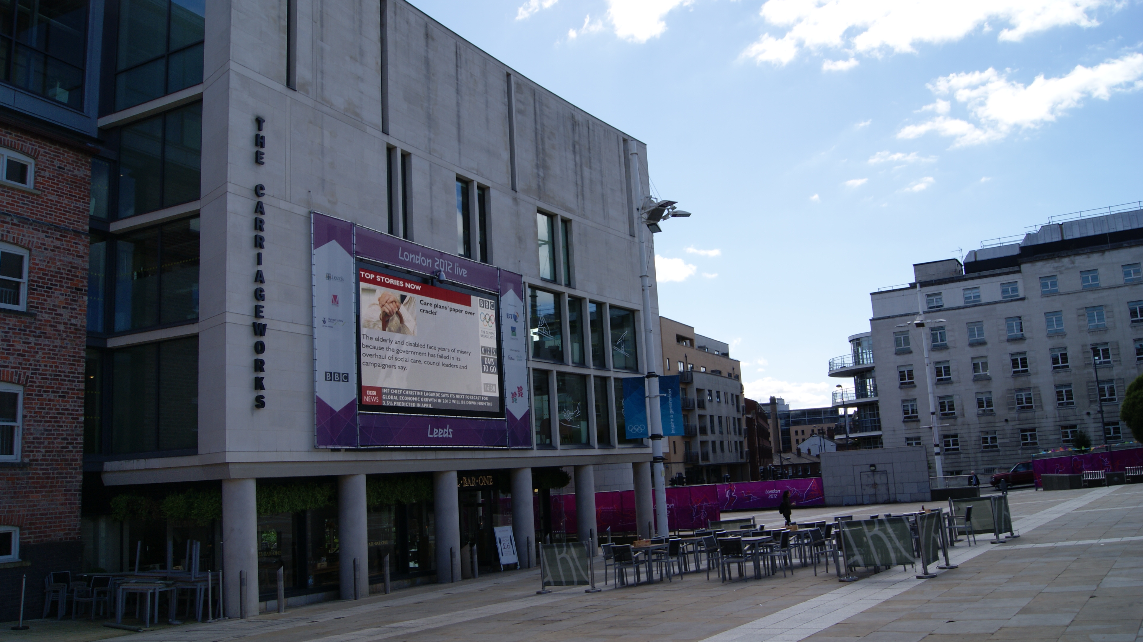 The Carriageworks and All Bar One on Millennium Square in Leeds, West Yorkshire. Taken on the afternoon of Wednesday the 11th of October 2012.